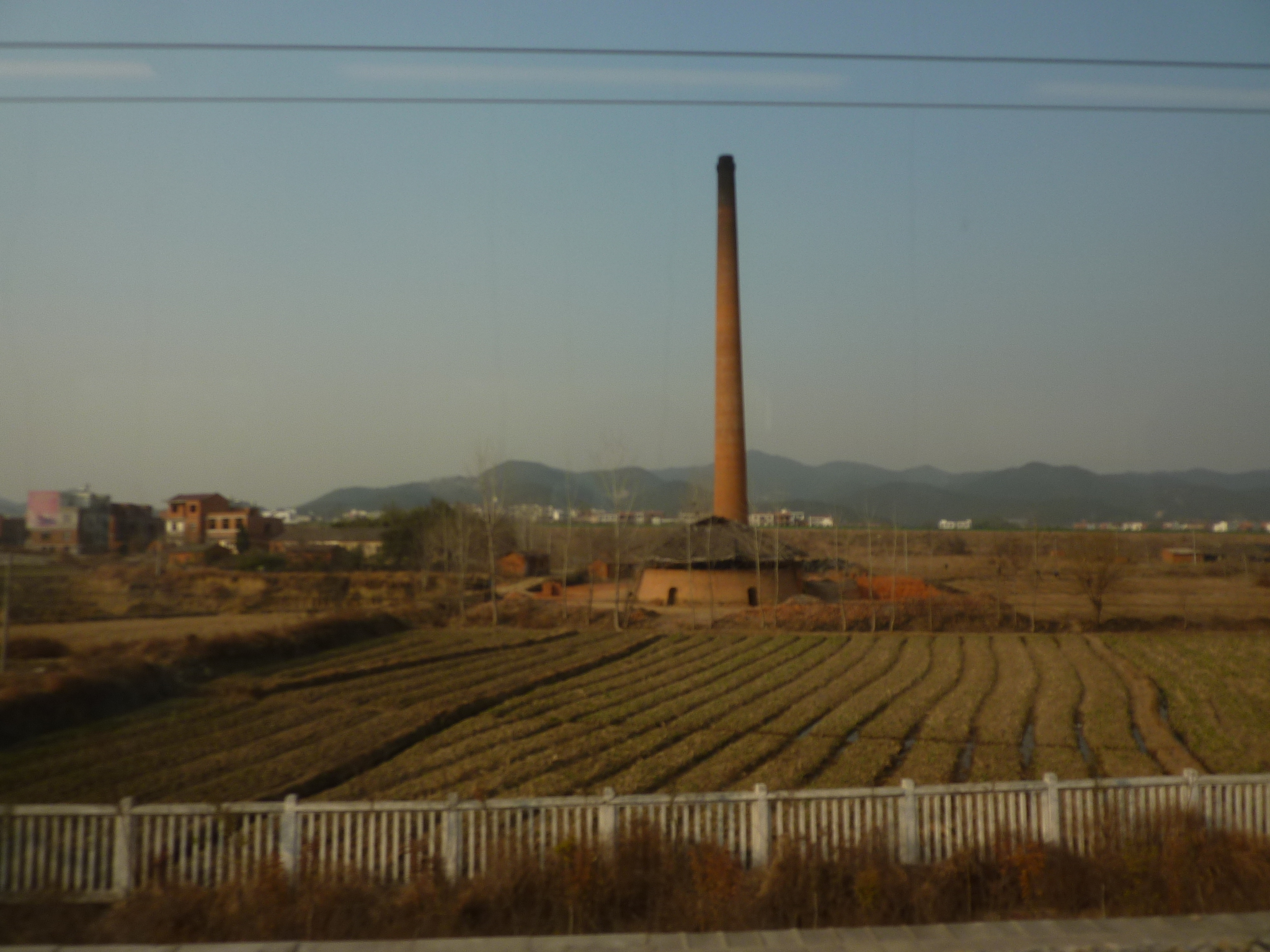 A semi-rural area of Macheng City, just east of the Macheng North Railway Station, seen from the Hewu Railway.